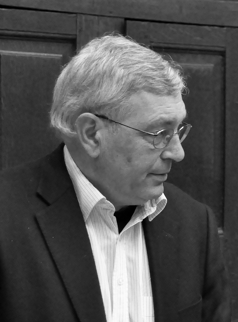 The Belgian historian Ludo Valcke (Bruges 1947)